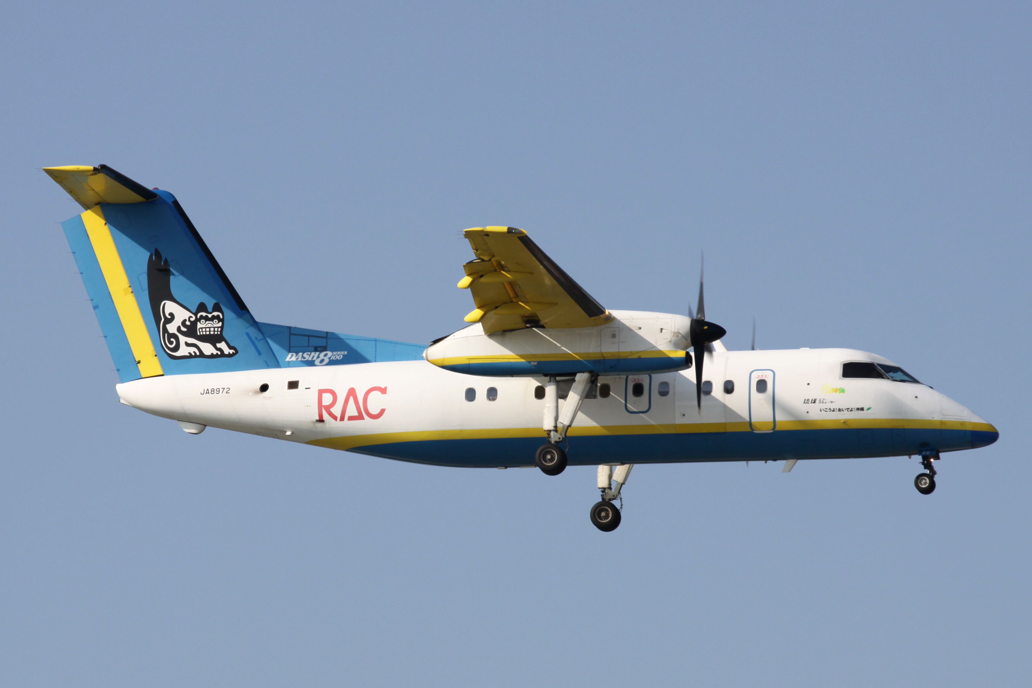 Final approach to Runway 36, Naha Airport. Okinawa, Japan, DHC-8-103Q Dash8, c/n:472 Ryukyu Air Commuter